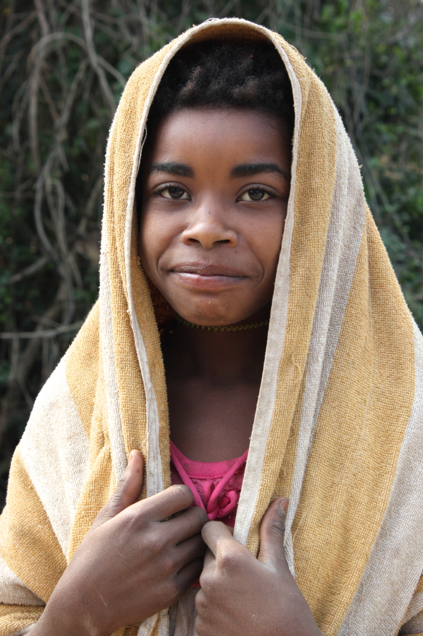 Siddi village in Sasan Gir. Indian people of African descent. Gujarat, New Year's Day, 2015. People of Gujarat, India